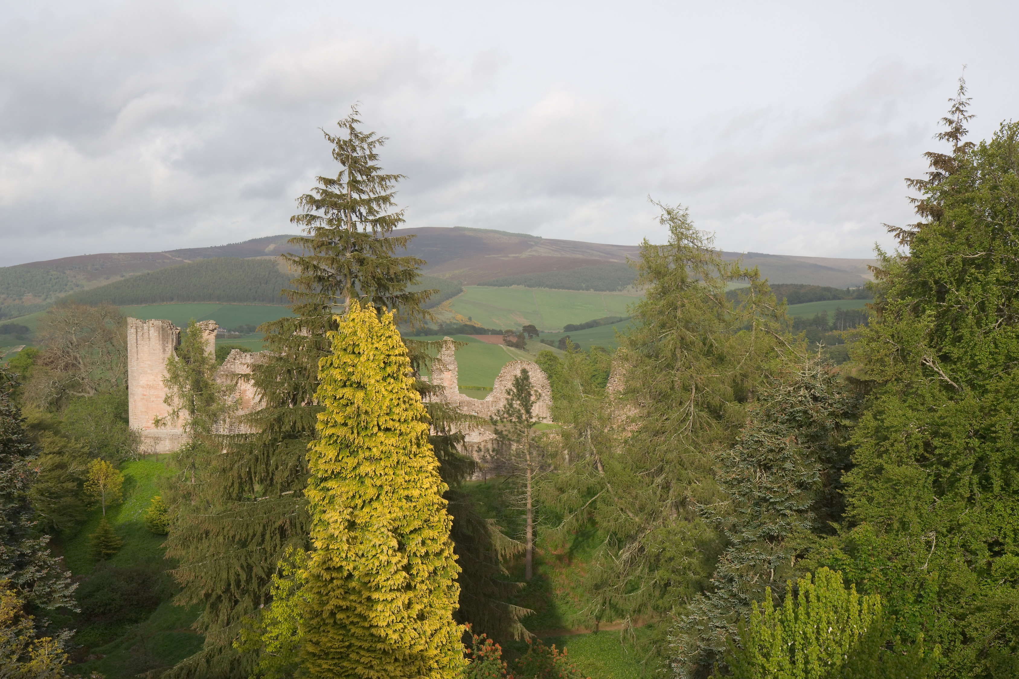 Kildrummy castle seen from the Kildrummy Castle Hotel; Aberdeenshire, Scotland